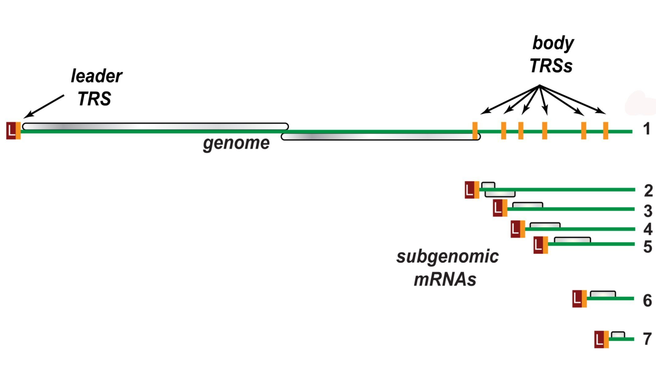 Nested set of subgenomic mRNAs in a nidovirus. The ORFs expressed from the respective mRNAs are shown in gray, and the 5′ leader sequence is depicted in dark red. The orange boxes indicate the positions of transcription-regulating sequences (TRS).